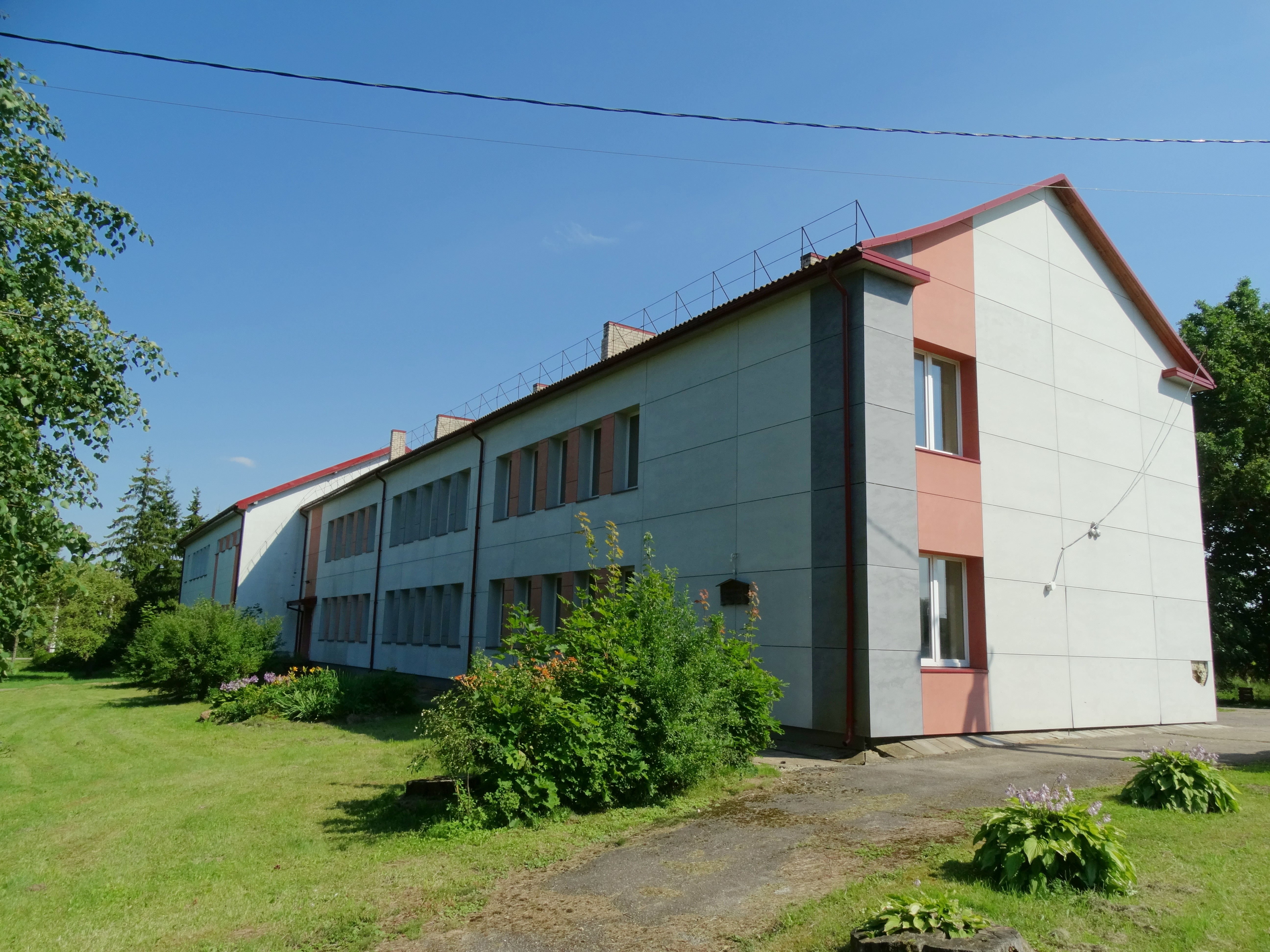 School, Rudiškiai, Joniškis district, Lithuania